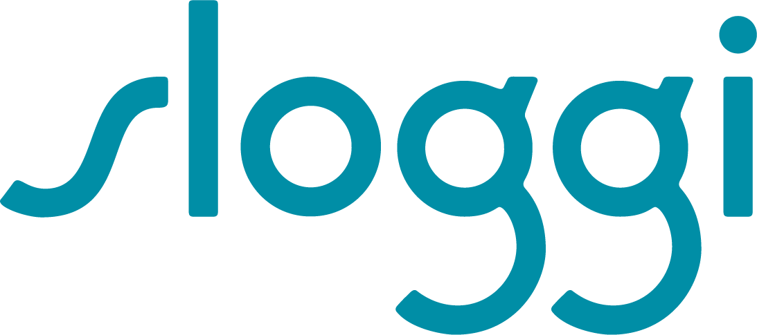 sloggi logo